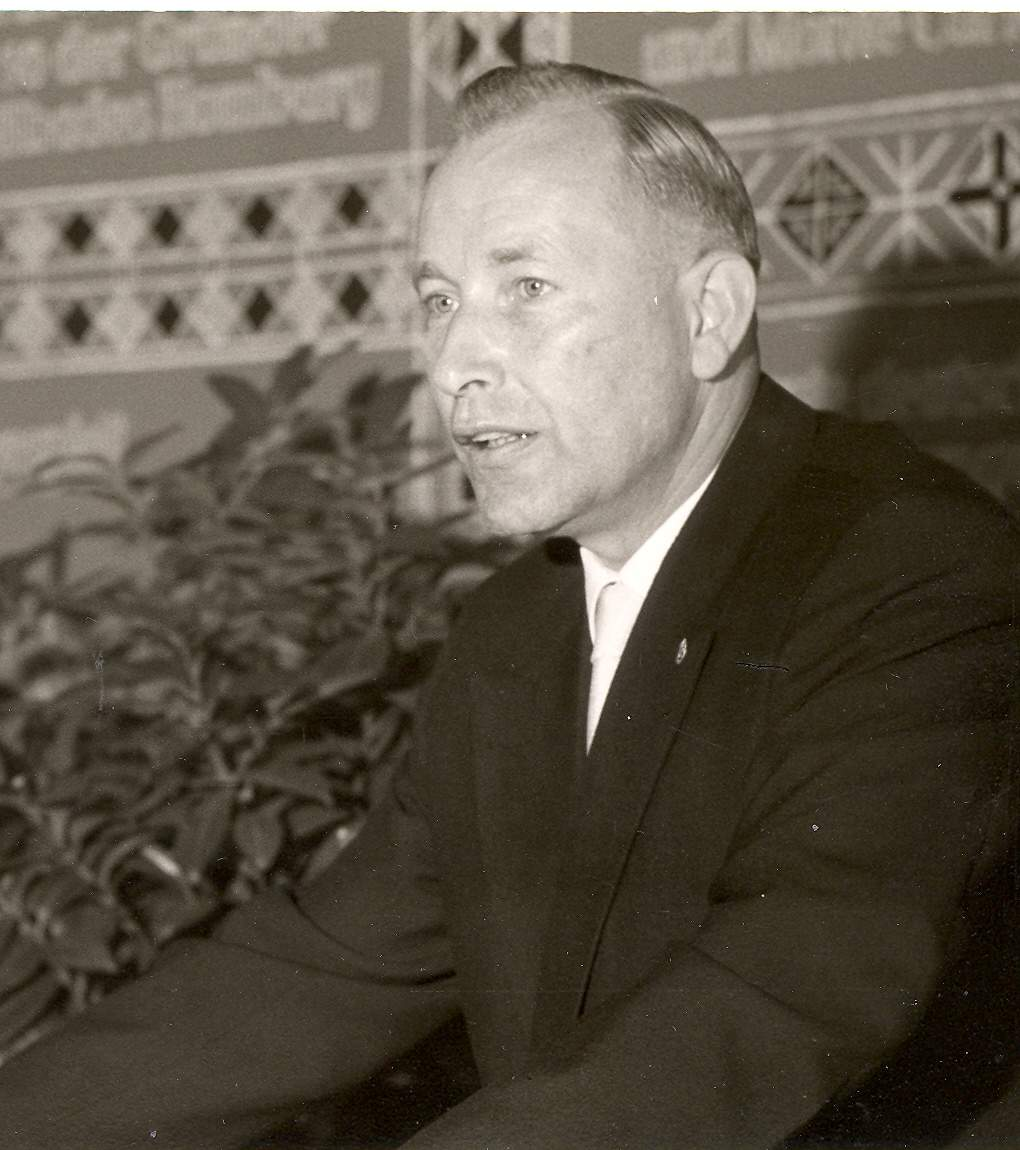 Dr Wilhelm von Nathusius, German doctor.